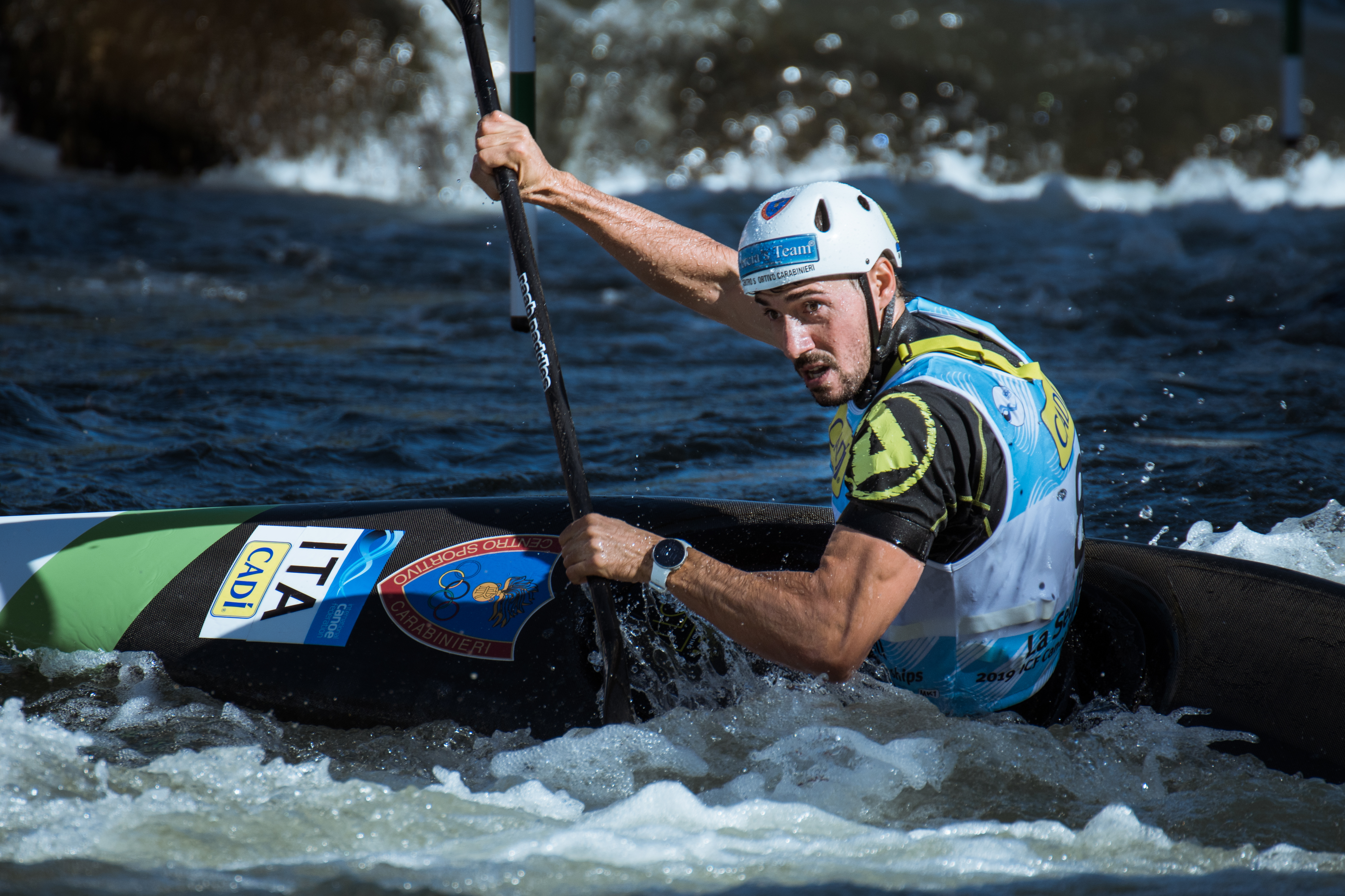 Giovanni De Gennaro during the 2019 Canoe Slalom World Championships in La Seu d'Urgell, Spain.